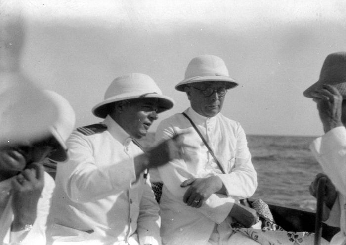 Prof. Dr. J.C. van Eerde on board of a ship which brings him to the Krakatau